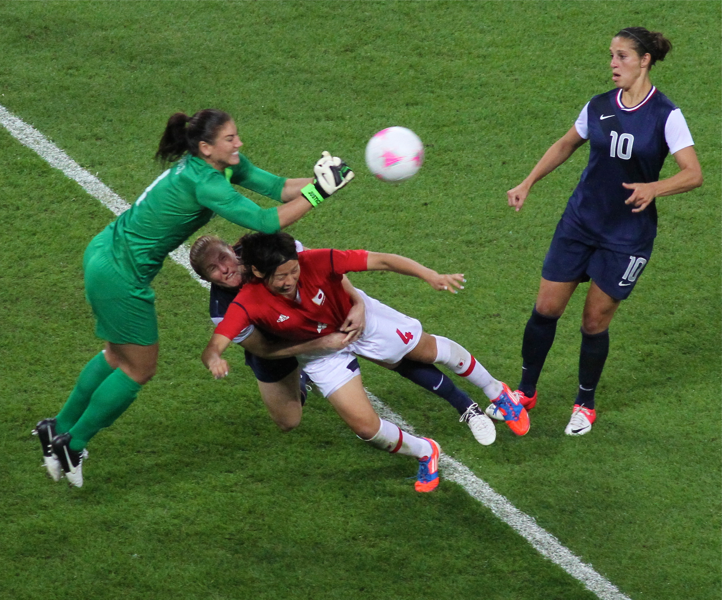 During the gold medal match at the 2012 Summer Olympic Games in London.